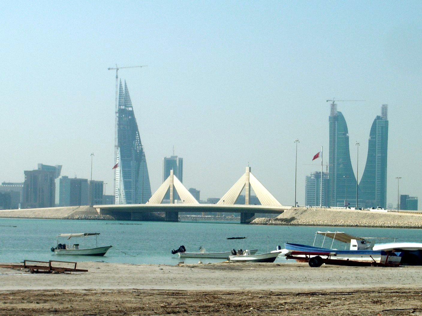 Photo: Soman